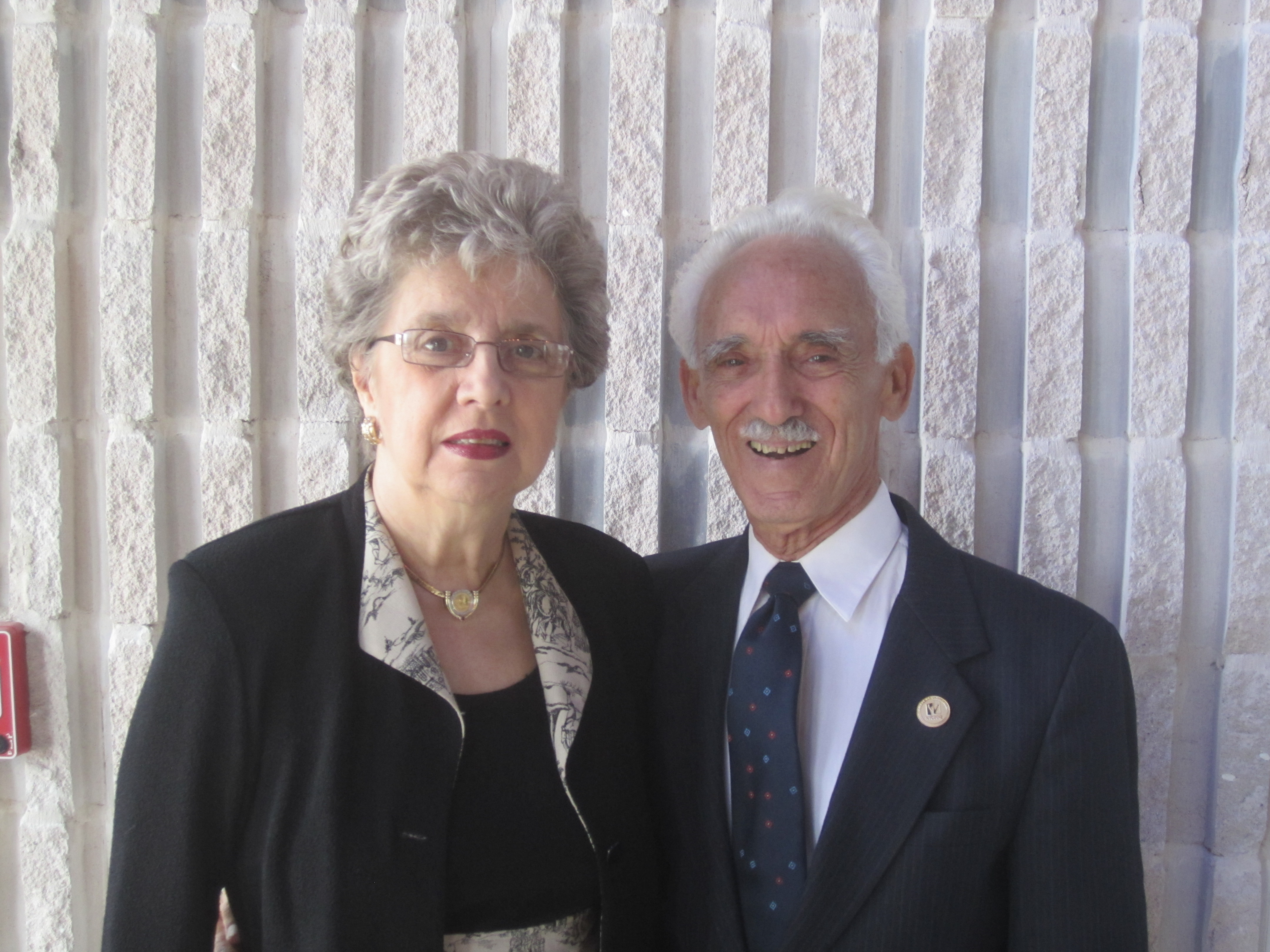 I took photo with a Canon camera in Laredo, TX.